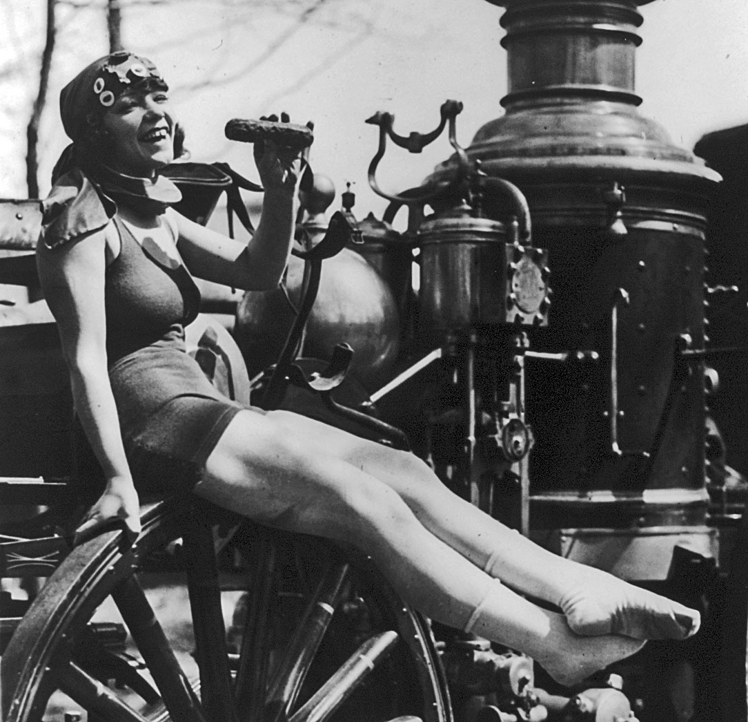 High diver Beatrice Kyle sitting on a fire engine wheel between acts at the Society Circus at Fort Myer, Va.; for the benefit of the Army Relief Fund.